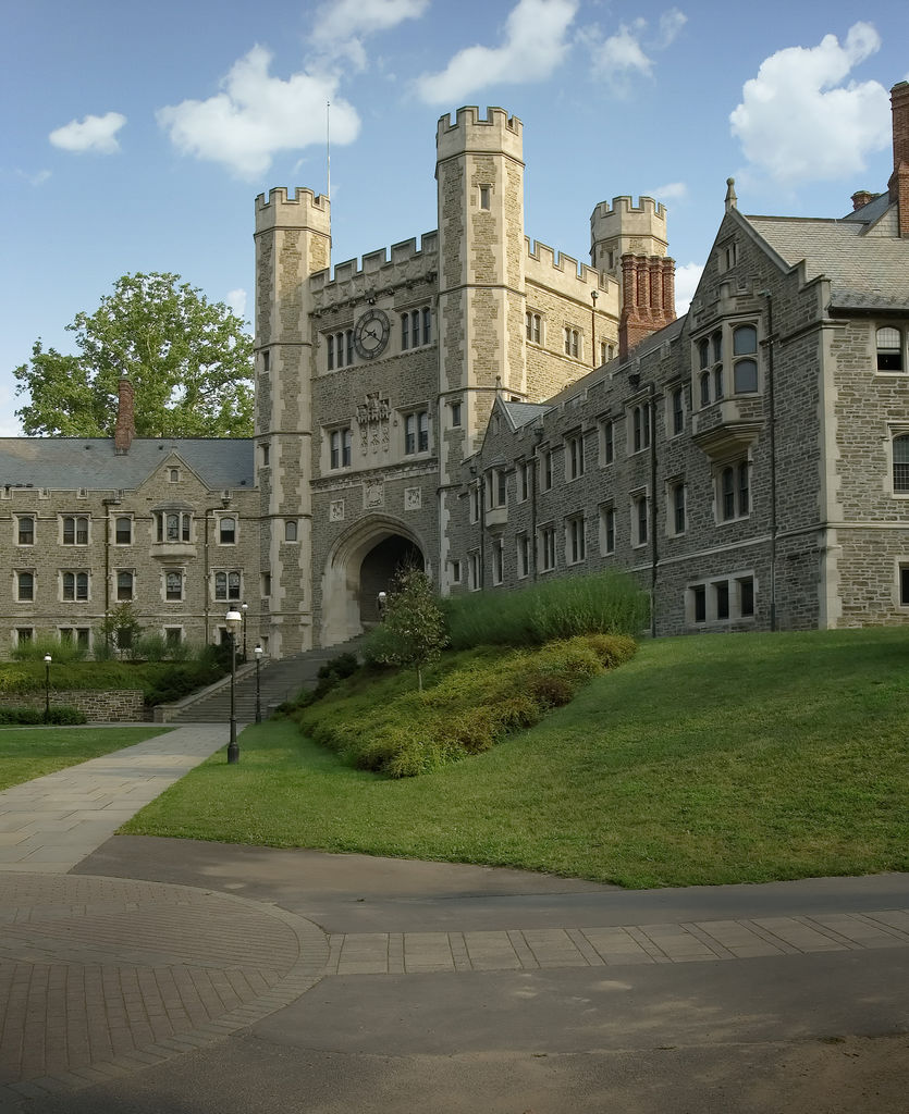 Buyers Hall / Blair Arch, Princeton University, New Jersey, USA. Architects: Cope and Stewardson, built 1896